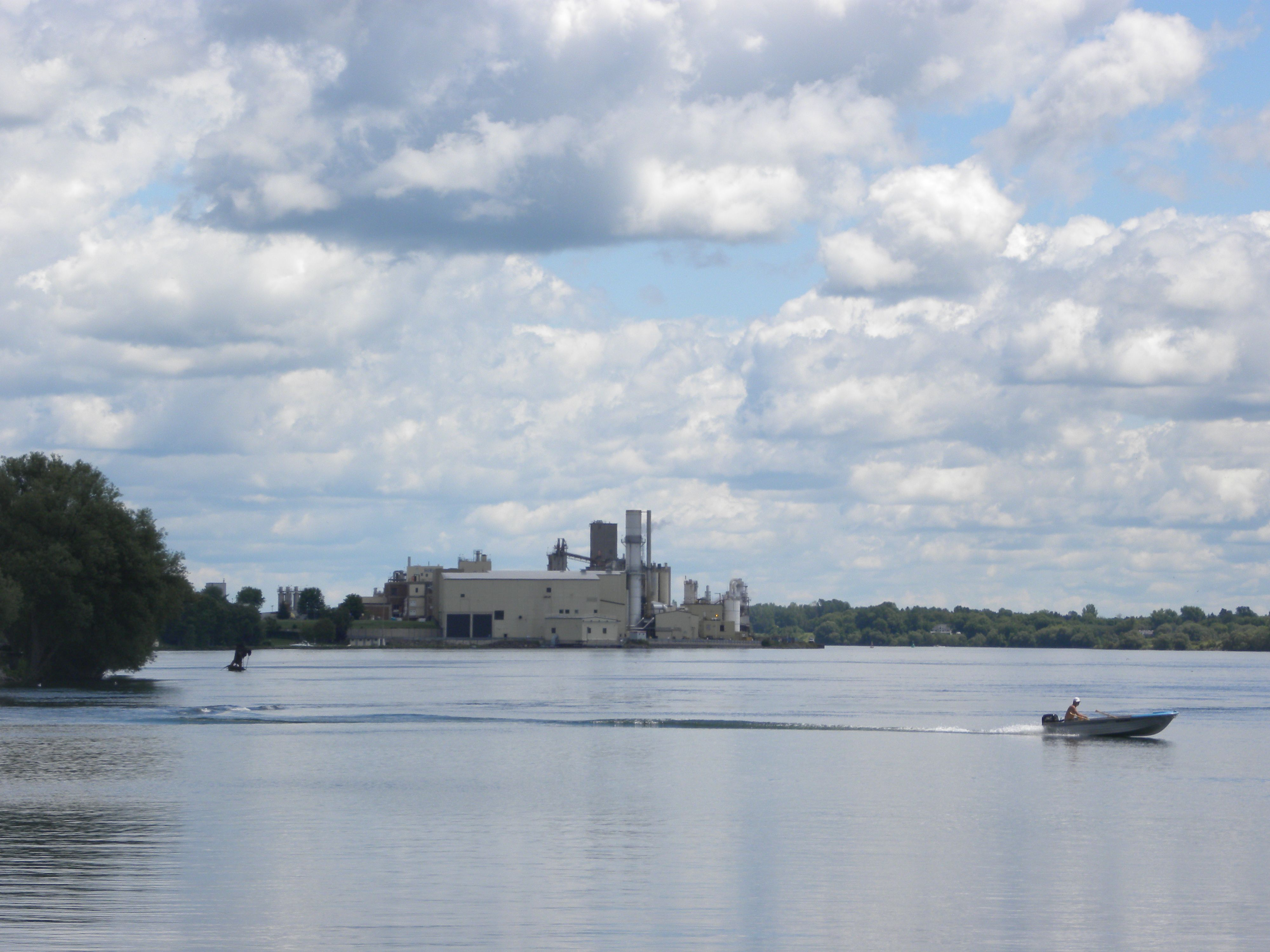 Canada Starch Factory, Cardinal, Ontario, Canada